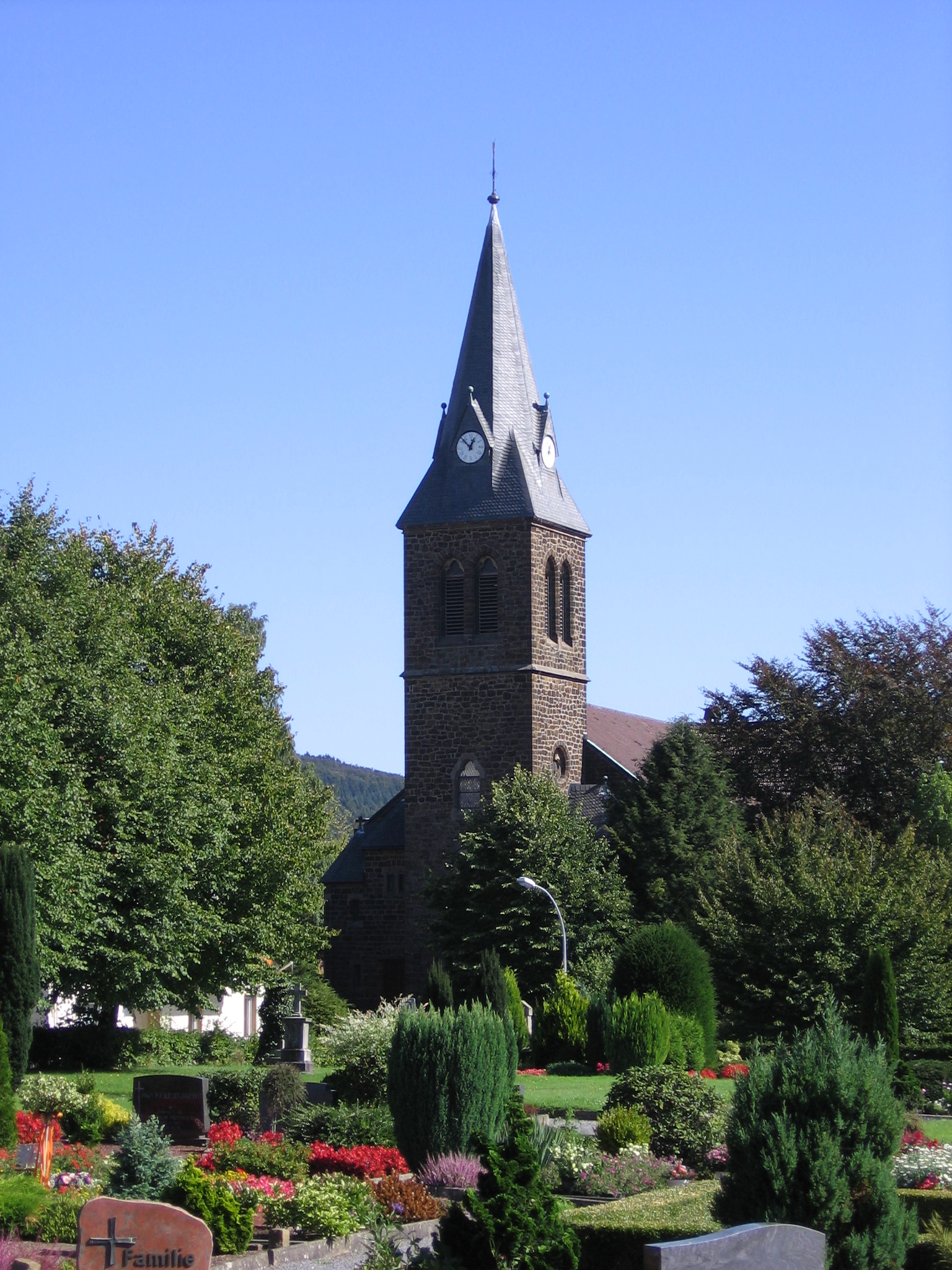 This image shows a heritage building in Germany, located in the North Rhine-Westphalian municipality Hüllhorst (no. 16).